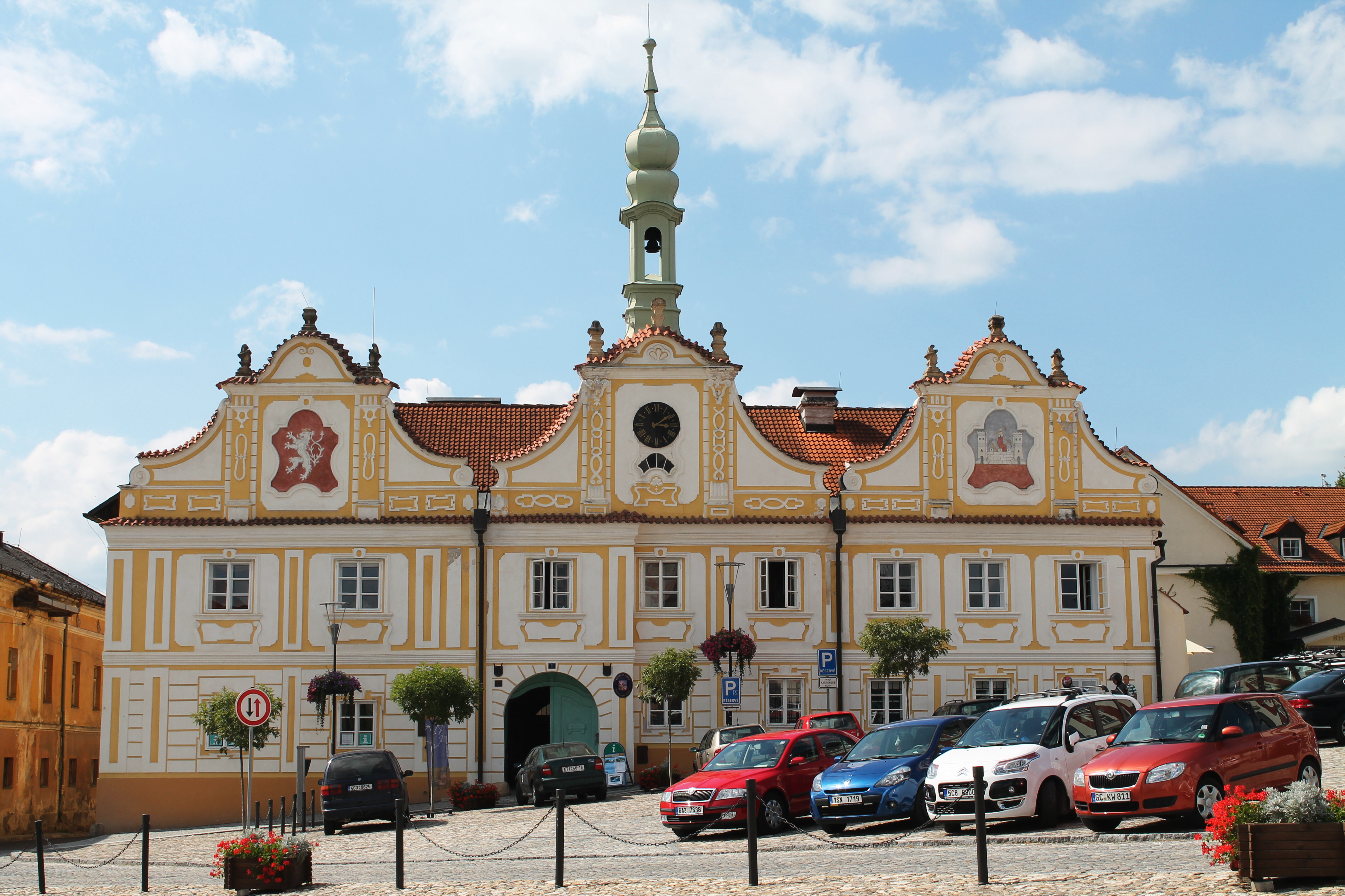 Town hall, Kašperské Hory, Klatovy District, Czech Republic